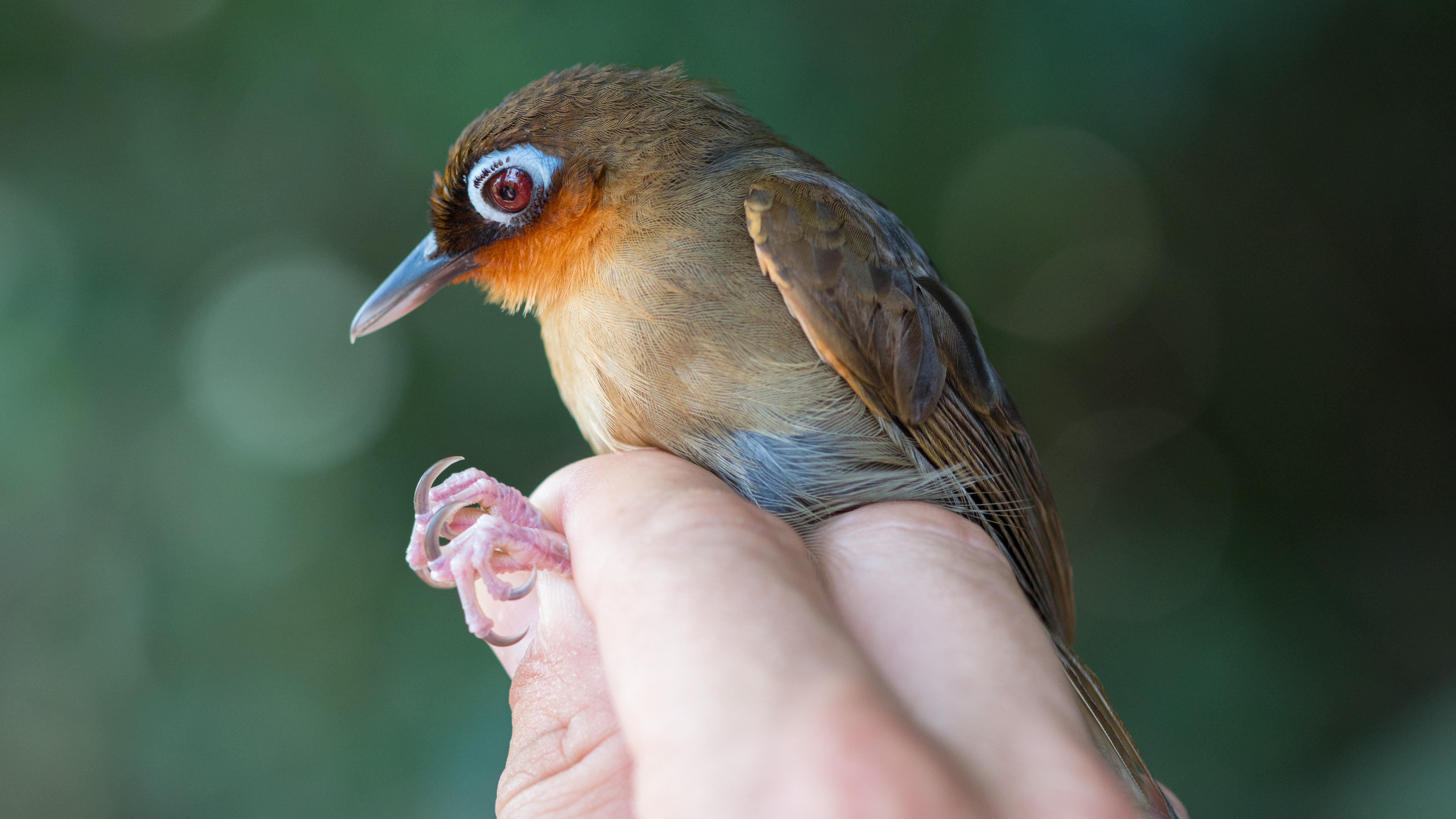 Rufous-throated Antbird (Gymnopithys rufigula) held by a hand.